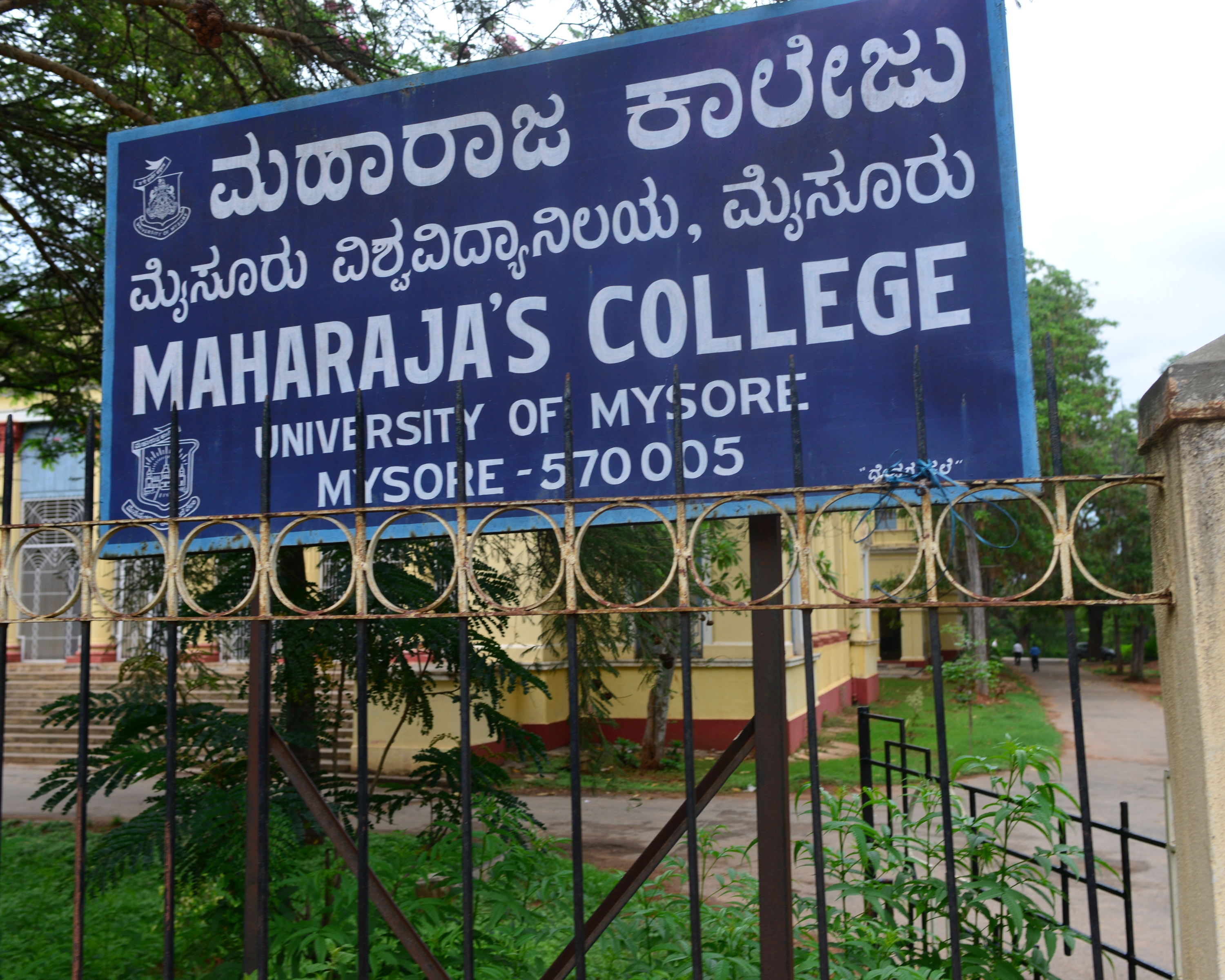 Signboard of Maharaja's College, Mysore